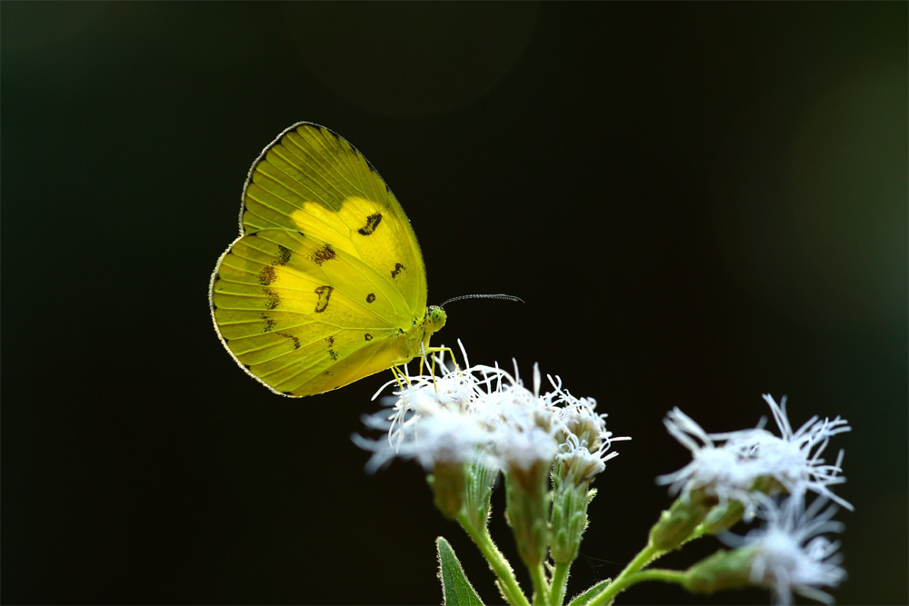 Nilgiri grassyellow, Eurema nilgiriensis, Kakkad, Kozhikode, Kerala